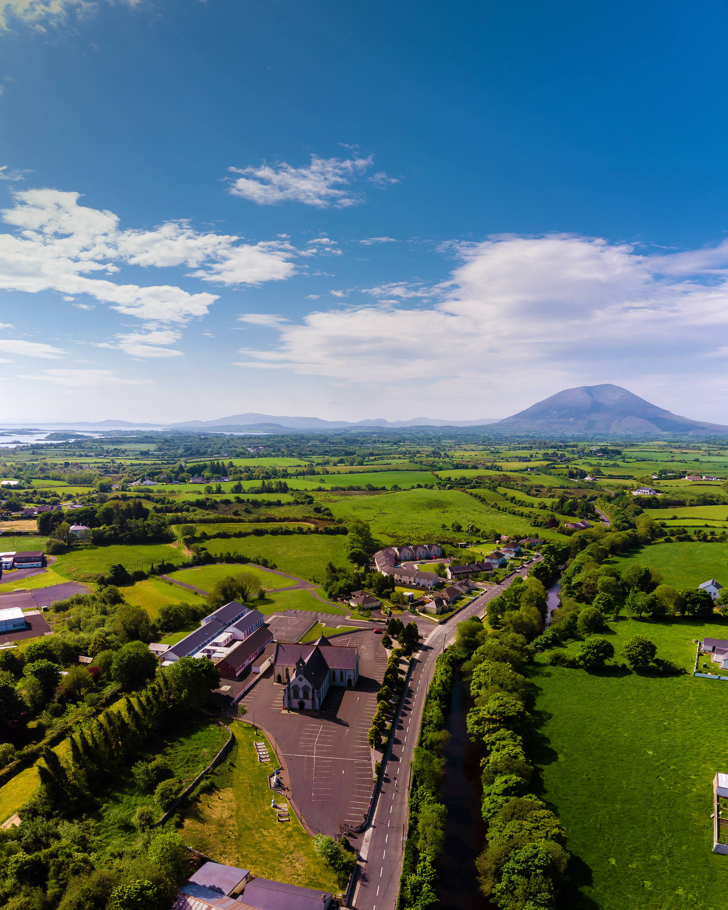 Ariel view of Saint Tiernan's Church, Crossmolina, County Mayo, Ireland. In the distance is the mountain known locally as Nephin.